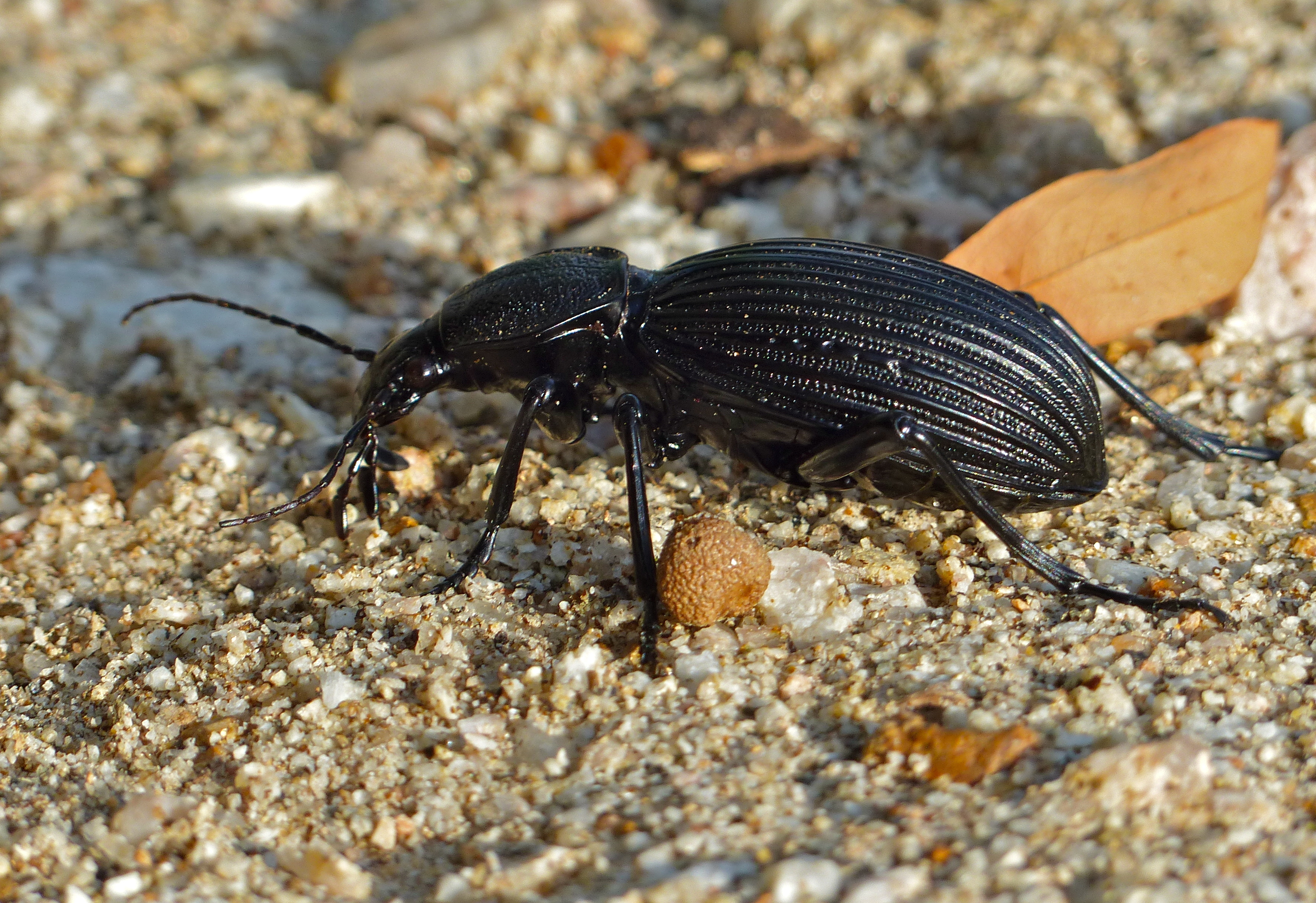 Tamboti Tented Camp, Kruger NP, SOUTH AFRICA